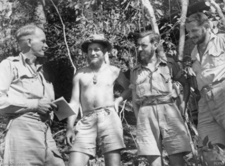 HQ staff from the 2/2nd Independent Company, an Australian Army commando unit during the Second World War, December 1942. Timor. Personnel identified from left to right are: QX6455 LTCOL Alexander Spence WX12124 LT Eric William Smyth 382001 MAJ Bernard James Callinan WX6490 CAPT George Boyland